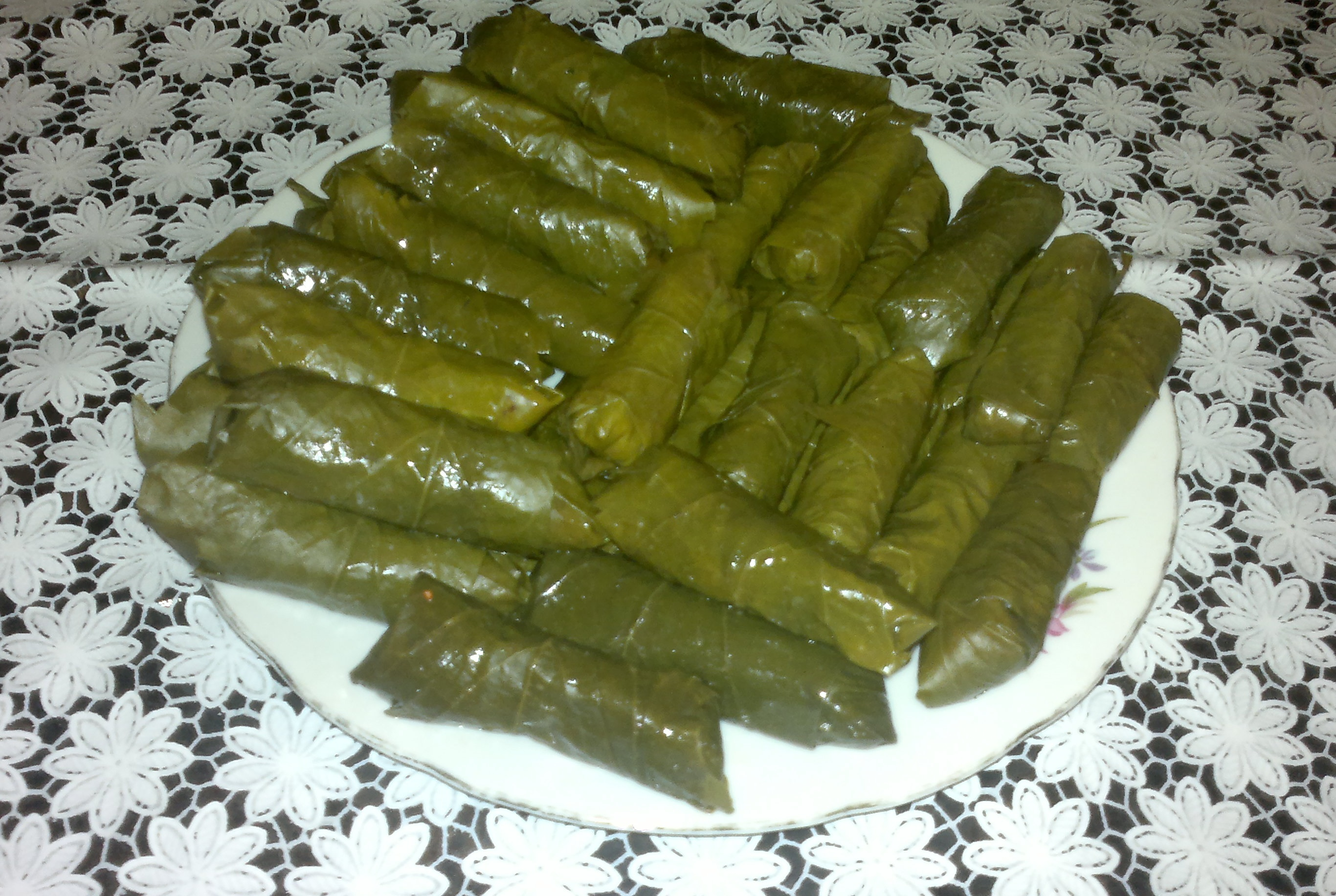 Armenian dish — Dolma (before cooking)